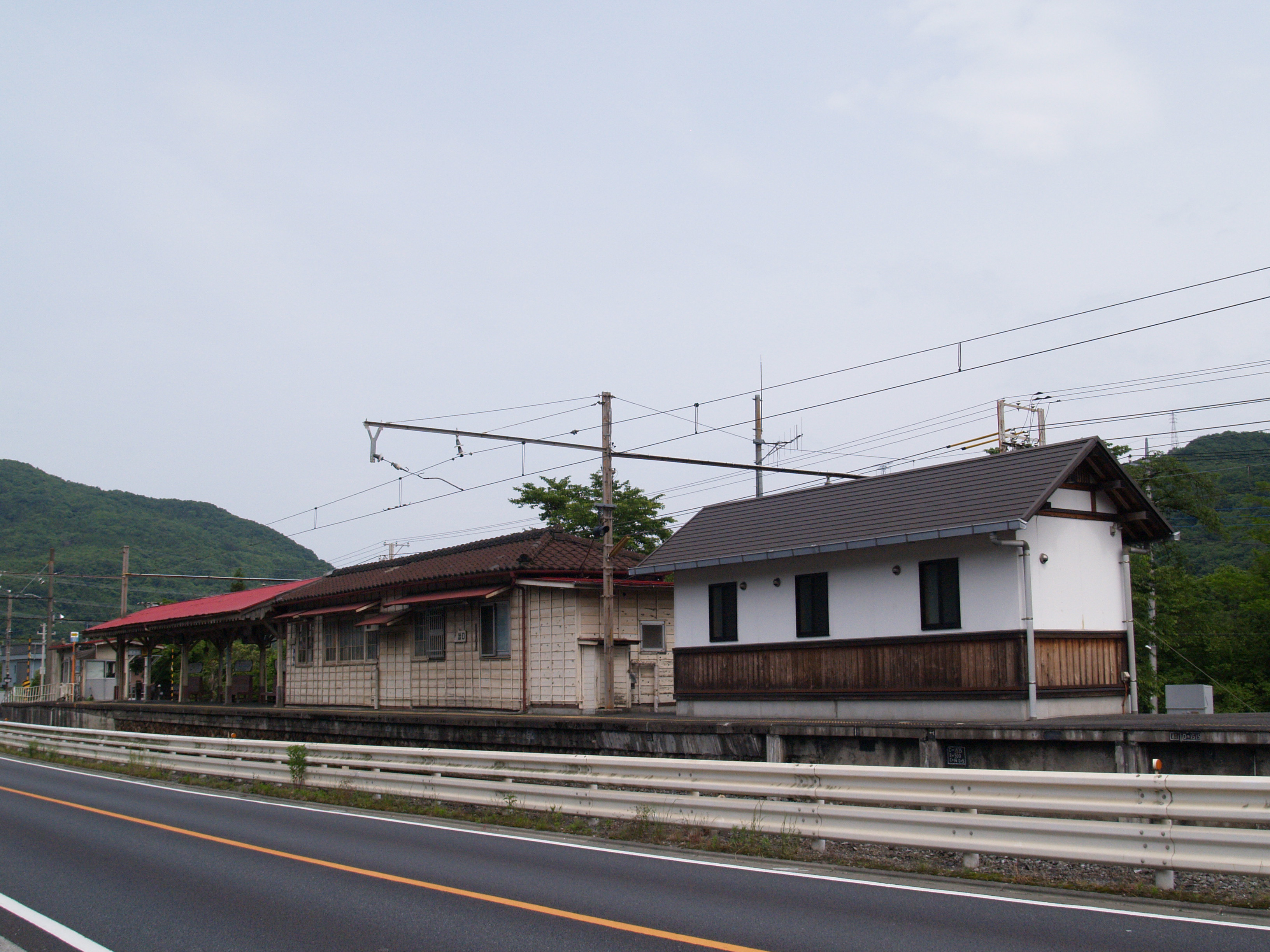 Higuchi Station on the Chichibu Main Line in Saitama Prefecture, Japan, viewed from National Route 140